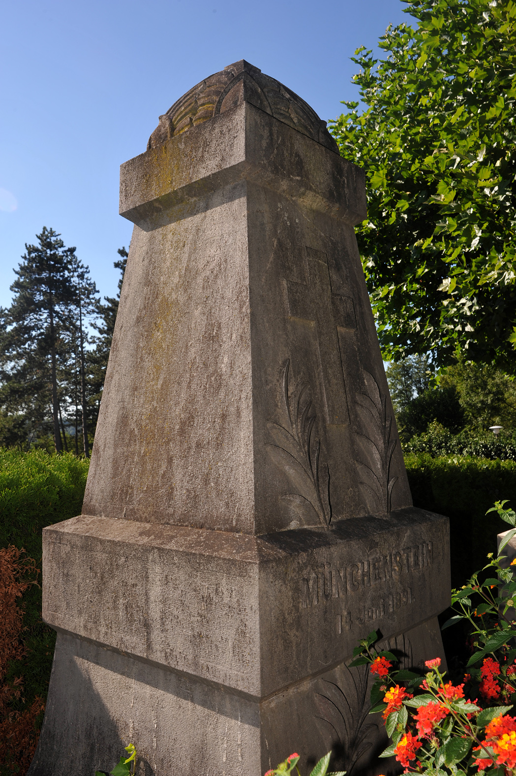 Memorial stone for the victims of the Railway accident of Münchenstein at the cemetery of Münchenstein; Basel-Landschaft, Switzerland. Inscription: MÜNCHENSTEIN, 14. Juni 1891